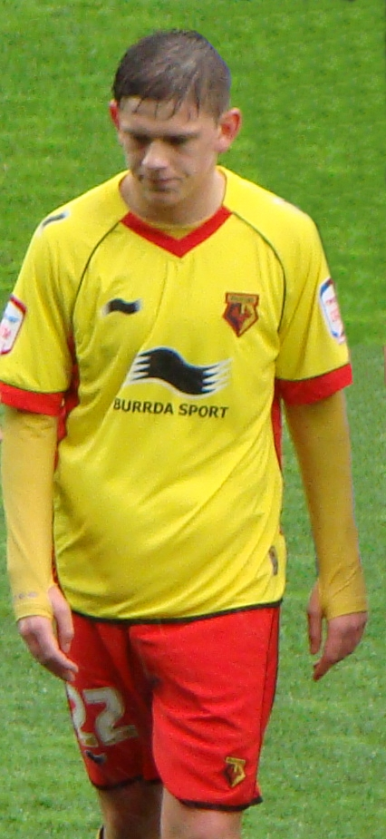 Sean Murray, playing for Watford against Cardiff City on 9 April 2012.